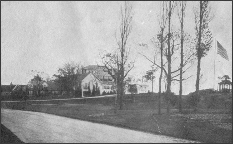 Home of Theodore C. Marceau in Premium Point in New Rochelle..